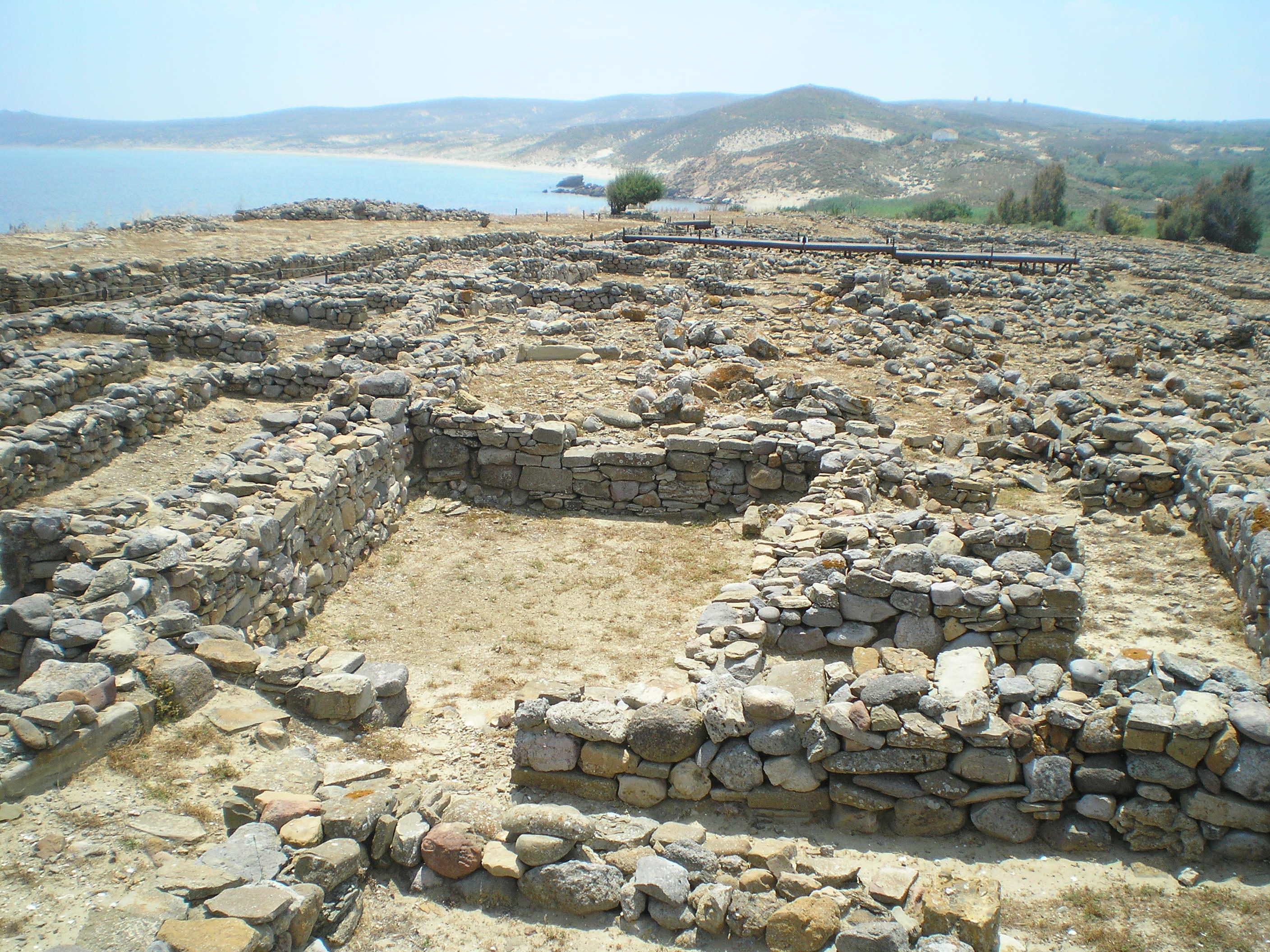 Poliochne